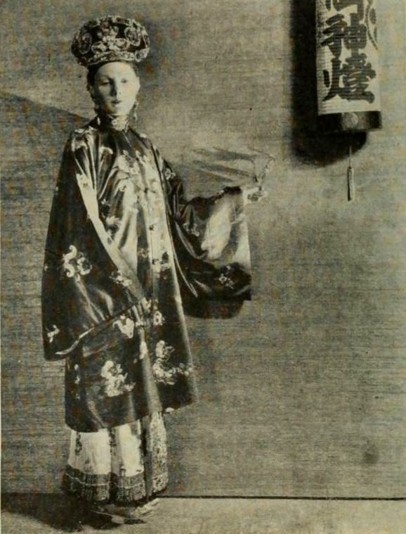 Still for the American romantic drama film Java Head (1923) with Leatrice Joy, on page 70 of the December 1922 Photoplay.